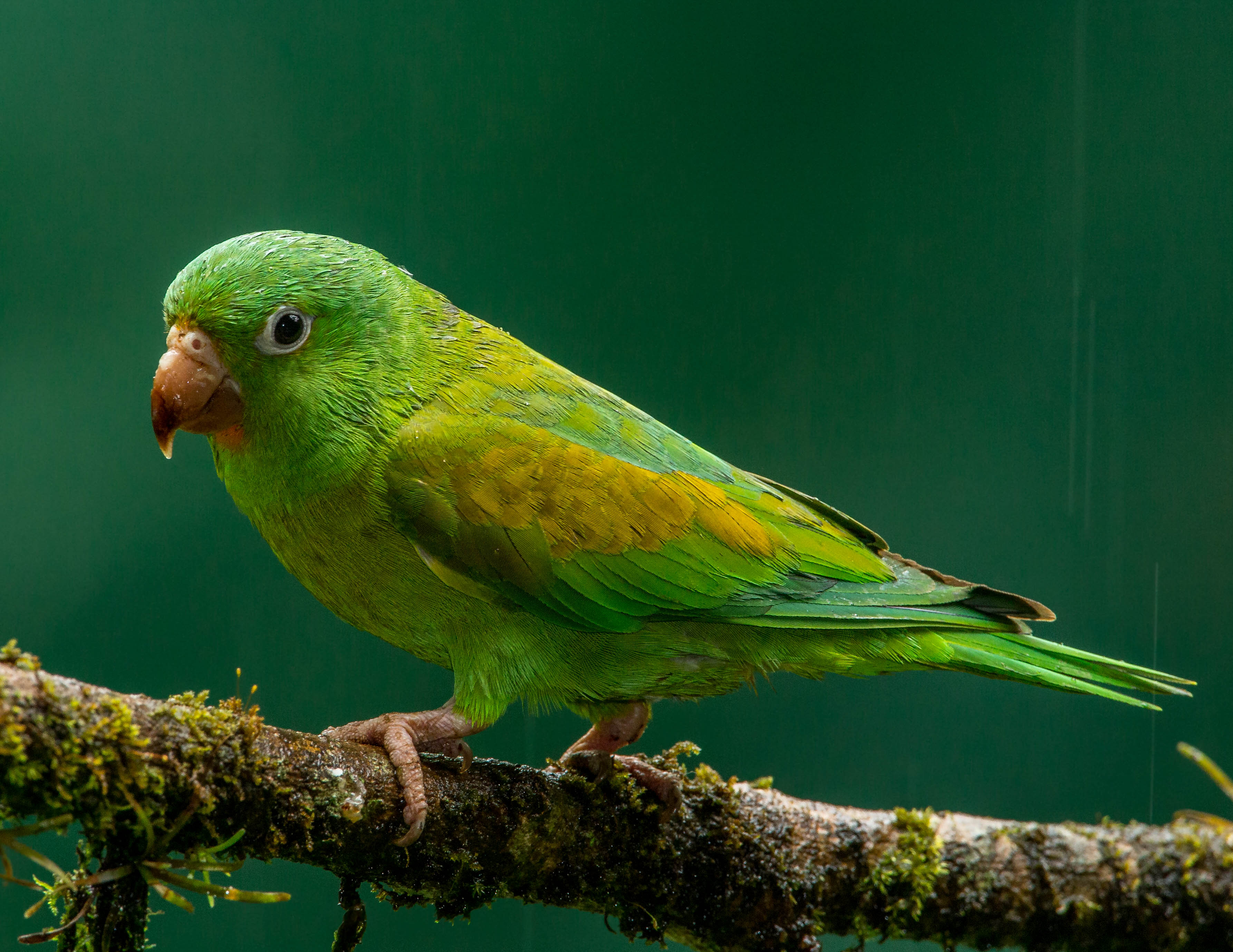 Taken in Costa Rica in the rain!!! I learned a lot about using fill flash on this trip!